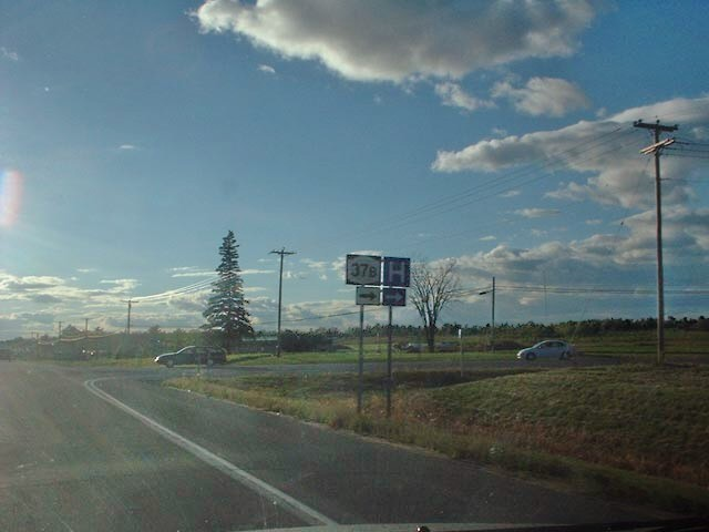 Westbound on New York State Route 37 at the western terminus of New York State Route 37B in the town of Louisville.